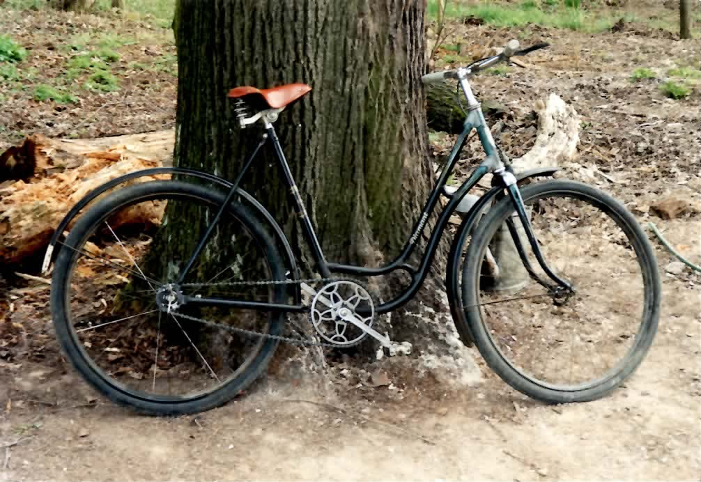 old german bicycle Diamant model 35154 from 1960